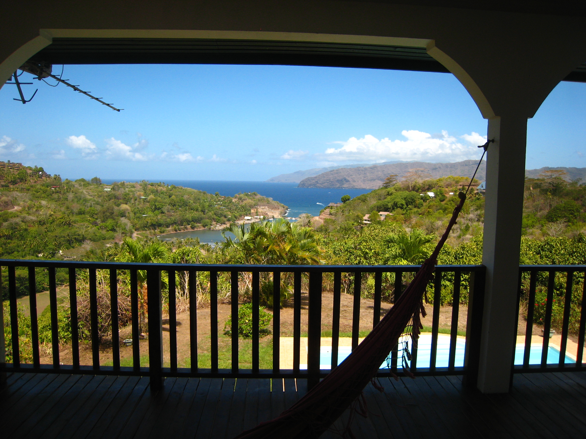 A view in Hiva Oa from Pension Kaiser.